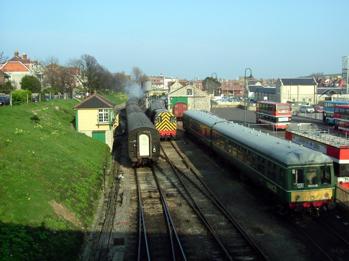 Swanage Railway, Dorset by Joe D in April 2005.